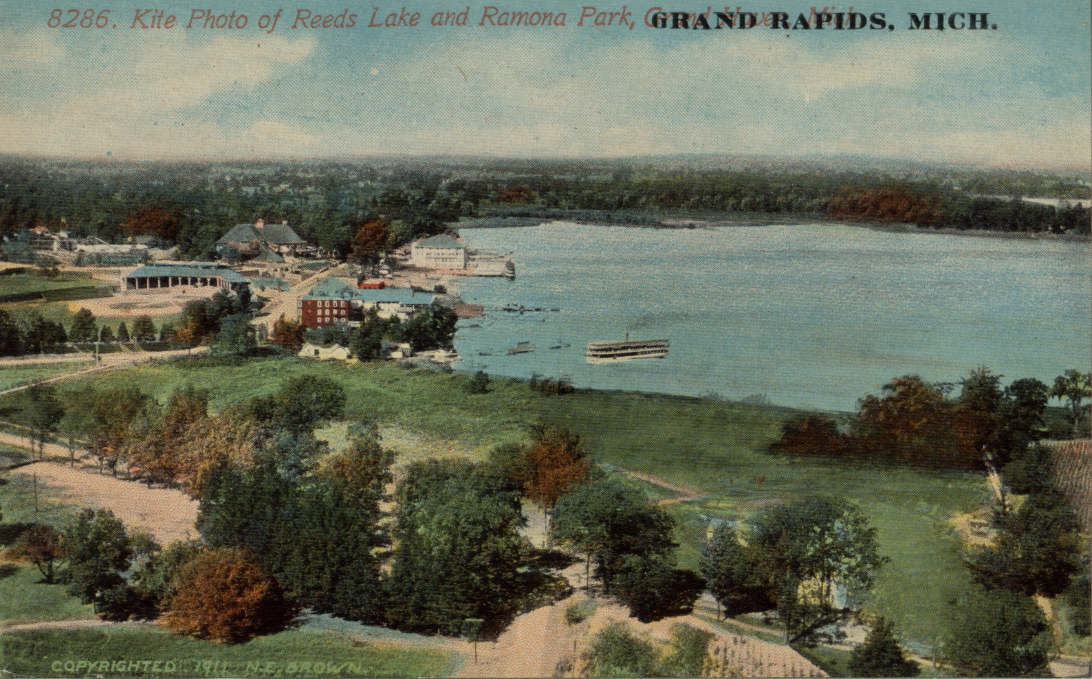 Kite Photo of Reeds Lake and Ramona Park, Grand Rapids MI., circa 1911. N.E. Brown, Grand Haven, MI. Postcard - 001.